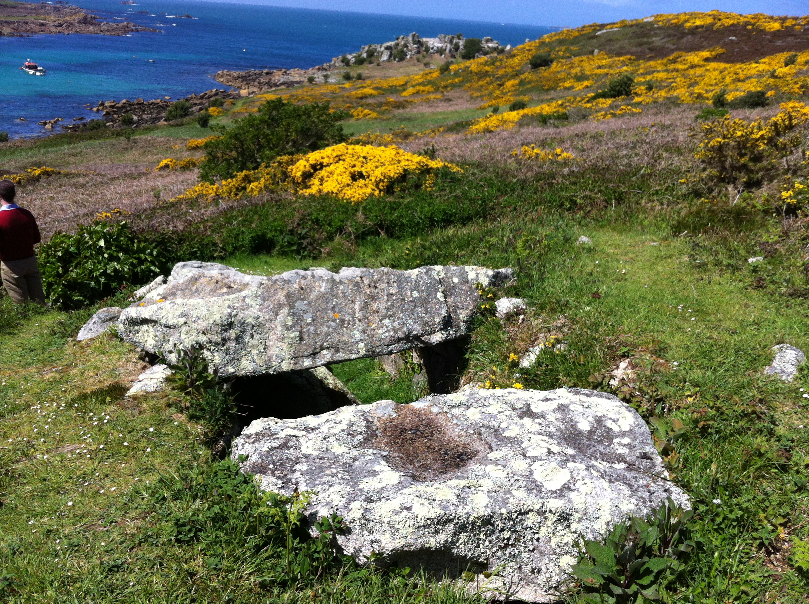 Obadia's Barrow, Gugh, Isle of Scilly, Great Britain, view west-northwest